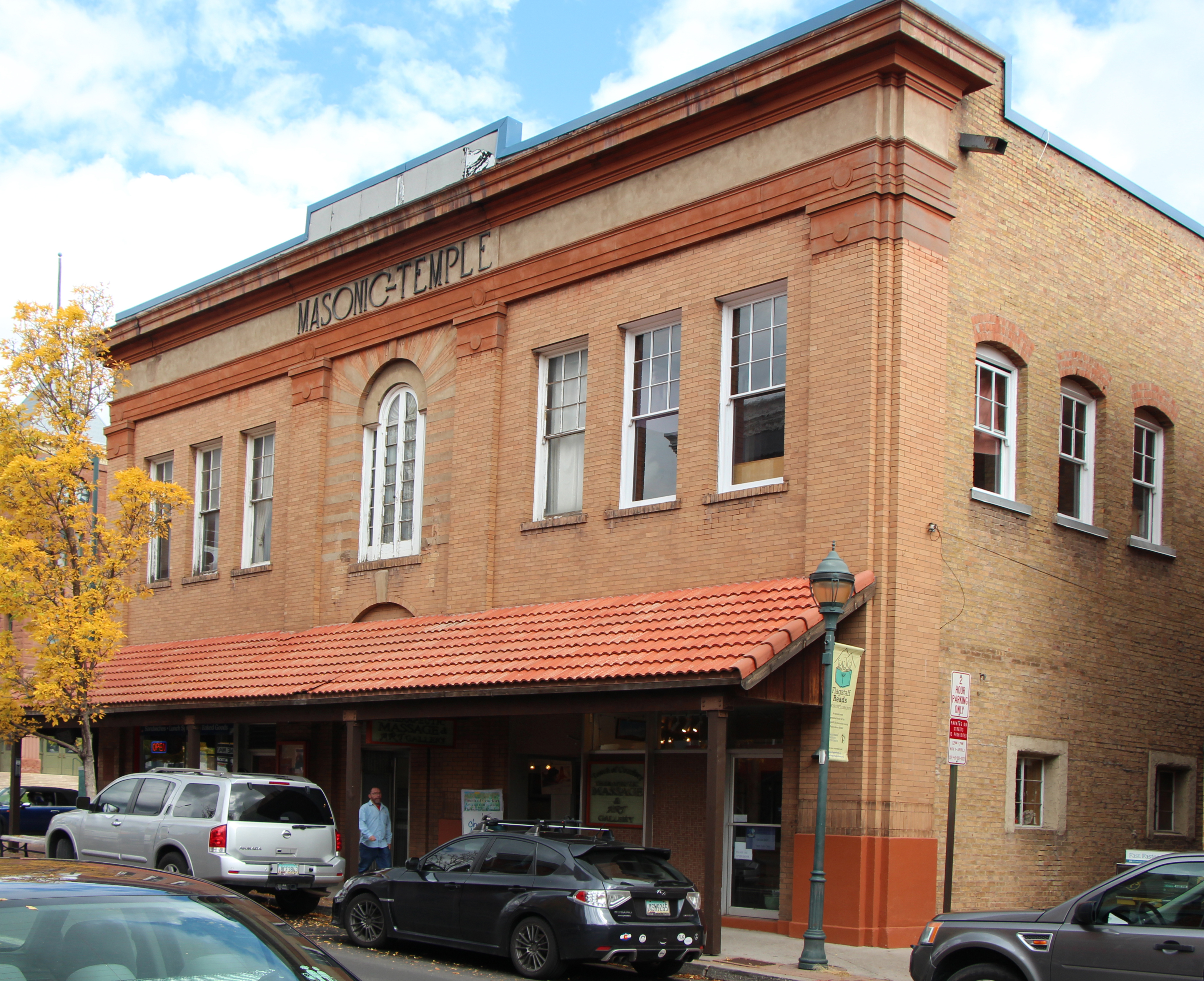 Masonic Temple, 105 E Birch Ave, Flagstaff, Arizona